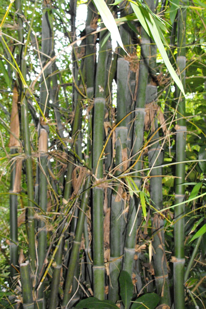 Sasa tsuboiana at the San Diego Zoo, California, USA.